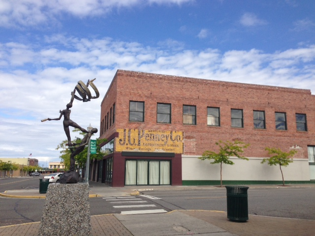 Historical Downtown Kennewick, WA Photo Credit: Theresa Will